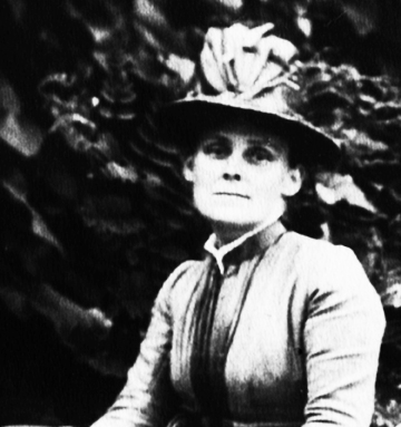 A photo of the writer Margaret Cushing Pearmain Osgood in Boston, circa 1896.